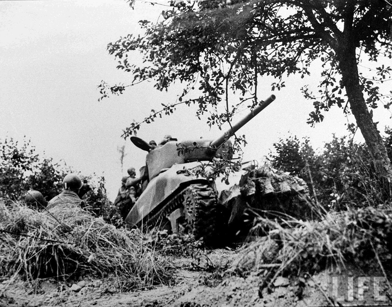 A Sherman 'Rhino' variant, modified to cut through the hedgerows of the bocage countryside, Normandy 1944